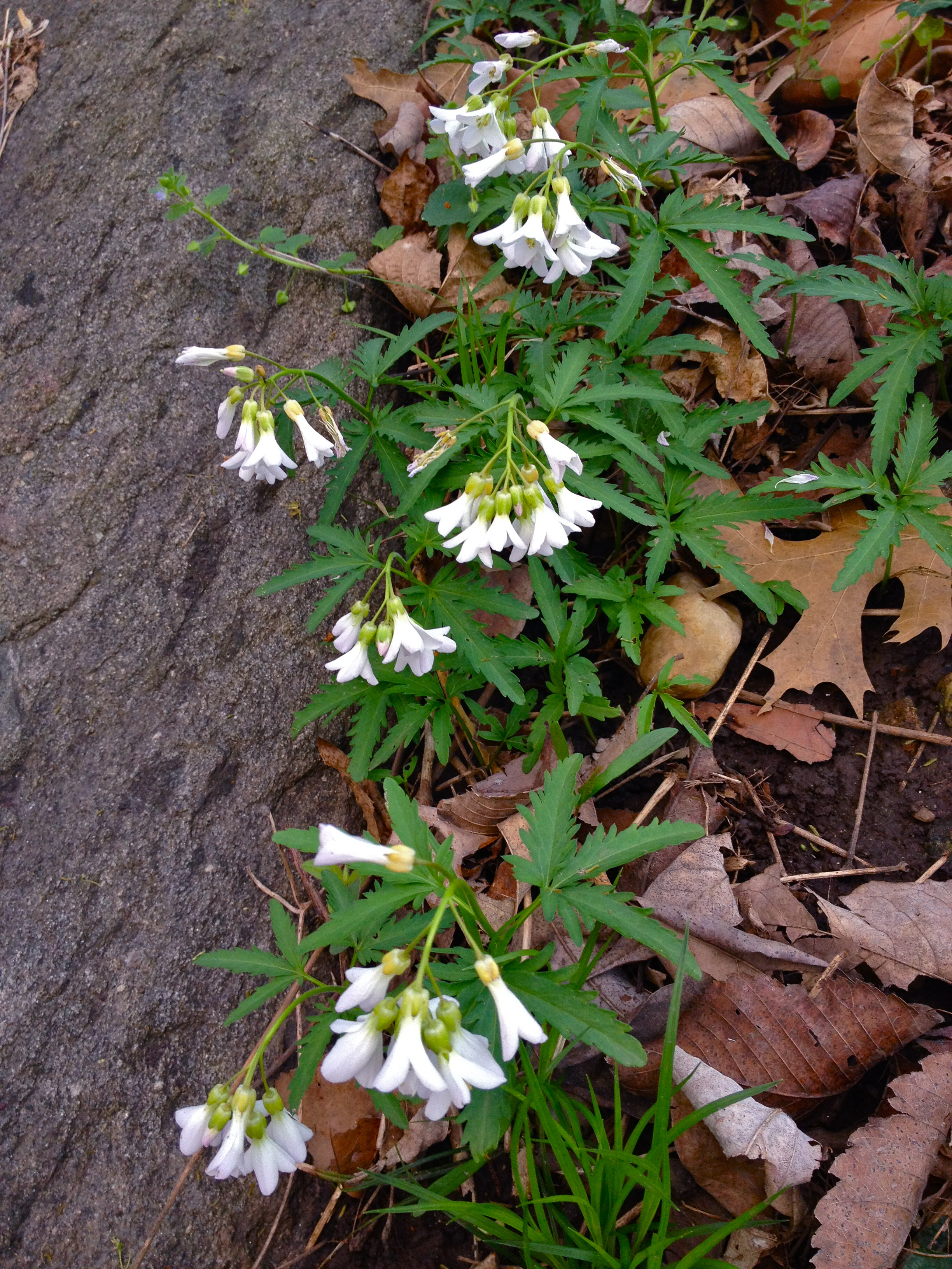 Photograph of Cardamine concatenata in flower. This is a native plant growing wild on Theodore Roosevelt Island, in Washington, D.C., USA. This species is in the Brassicaceae family.